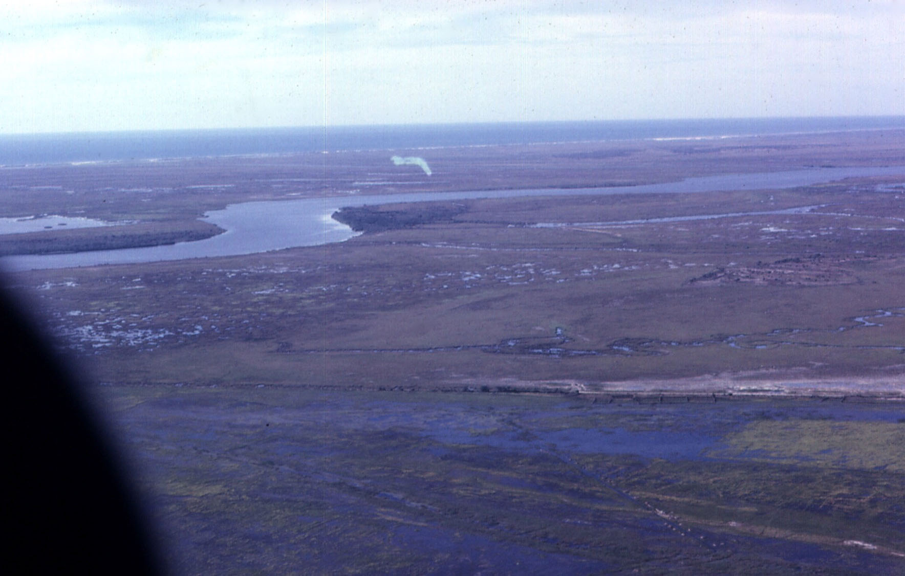 Flying at low altitude near the Senegal River (West Africa) (taken not far from St. Louis, Senegal) Photo taken in December, 1967. The aircraft is a Douglas C-47A Dakota, a military version of the DC-3 operated by the Mauritanian Air Force.